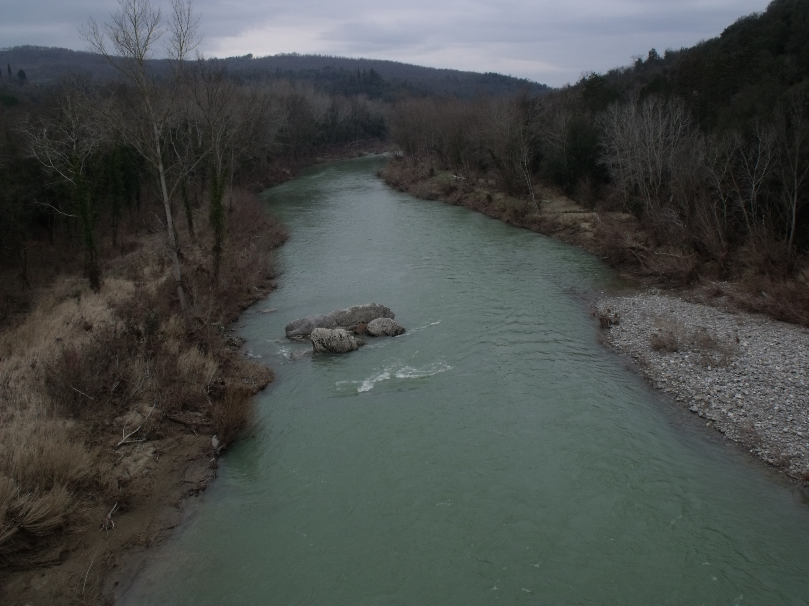 The Ombrone River in Sasso d’Ombrone, Cinigiano, Province of Grosseto, Tuscany